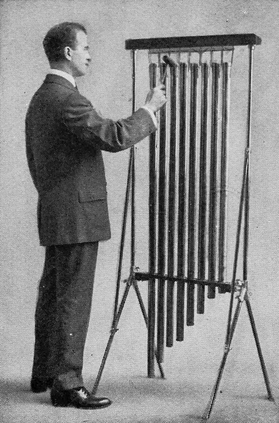 Chimes